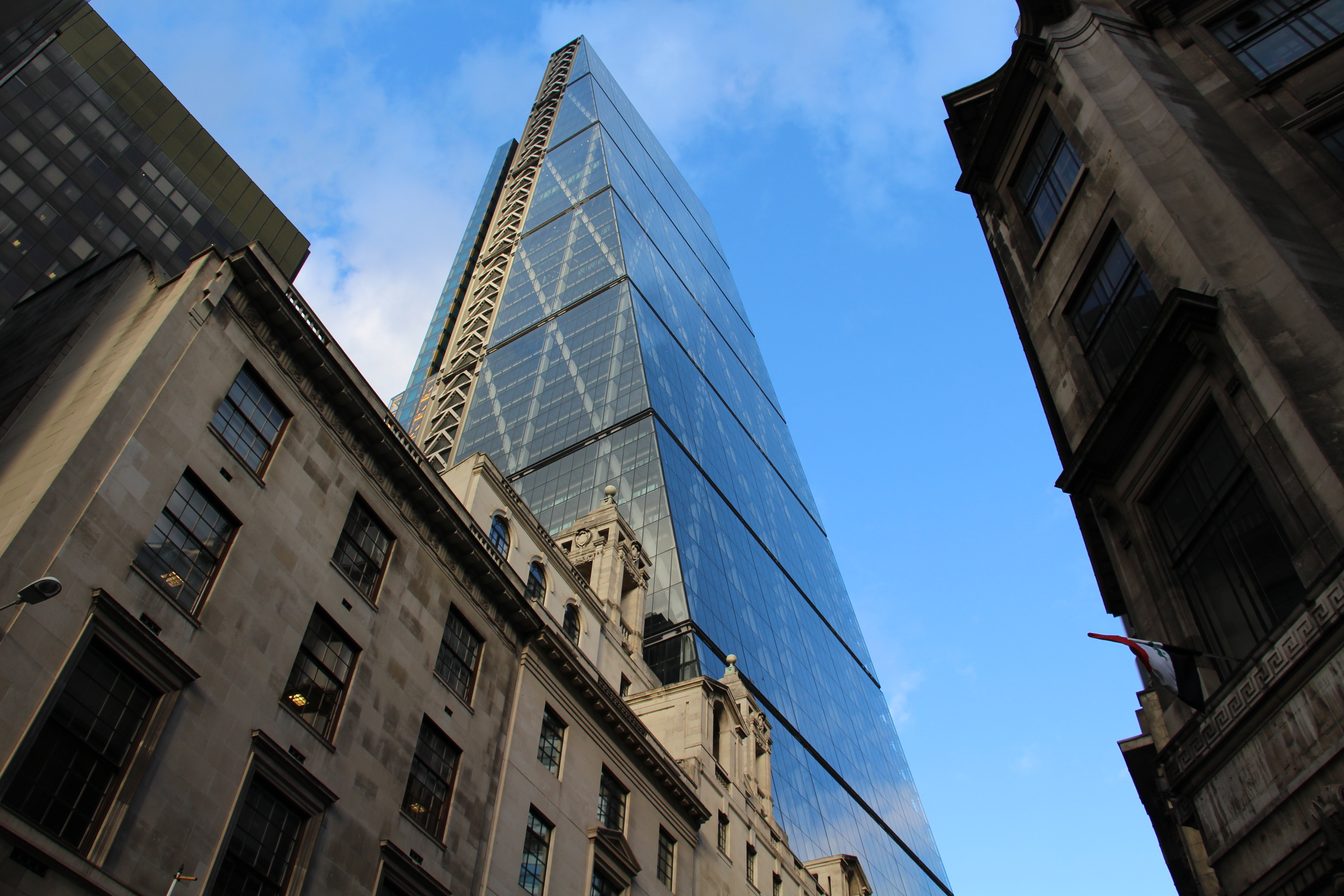 122 Leadenhall Street Informally known as "The Cheesegrater" because of its distinctive wedge shape. Arch. Rogers Stirk Harbour + Partners (Richard Rogers) 2000-14.